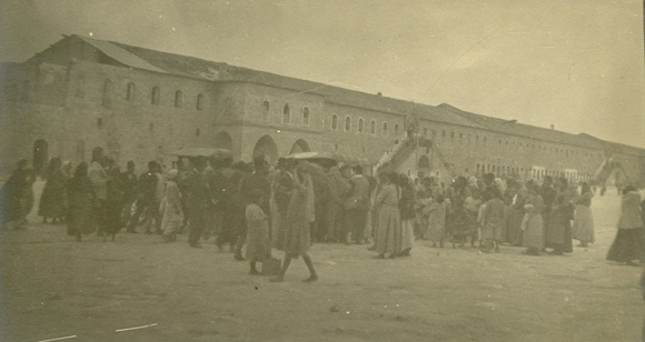 Caption: Armenian refugees, Turkish barracks, Aleppo. April, 4, 1919. Citation: Silas and Anna Weaver Hertzler Papers. Middle East Photographs, 1919-1920. HM1-197. Box 19 Folder 6. Mennonite Church USA Archives - Goshen. Goshen, Indiana.